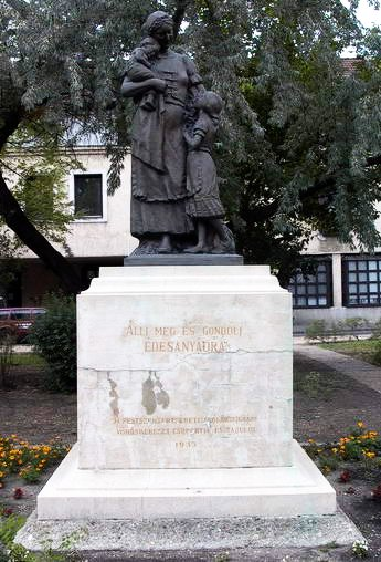 "Statue of Mothers" made by Károly Kaszab (1933) at Szent Erzsébet téri park, 20th district, Budapest, photography by József Riesz